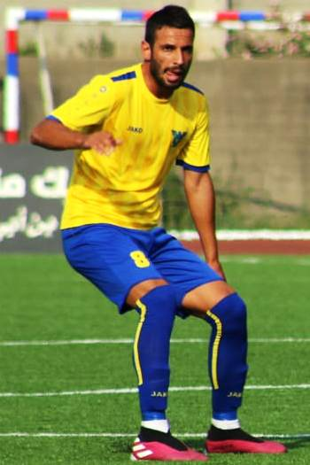 Ahmad Jalloul for Safa against Akhaa Ahli Aley, during the 2019-20 Lebanese Premier League season.